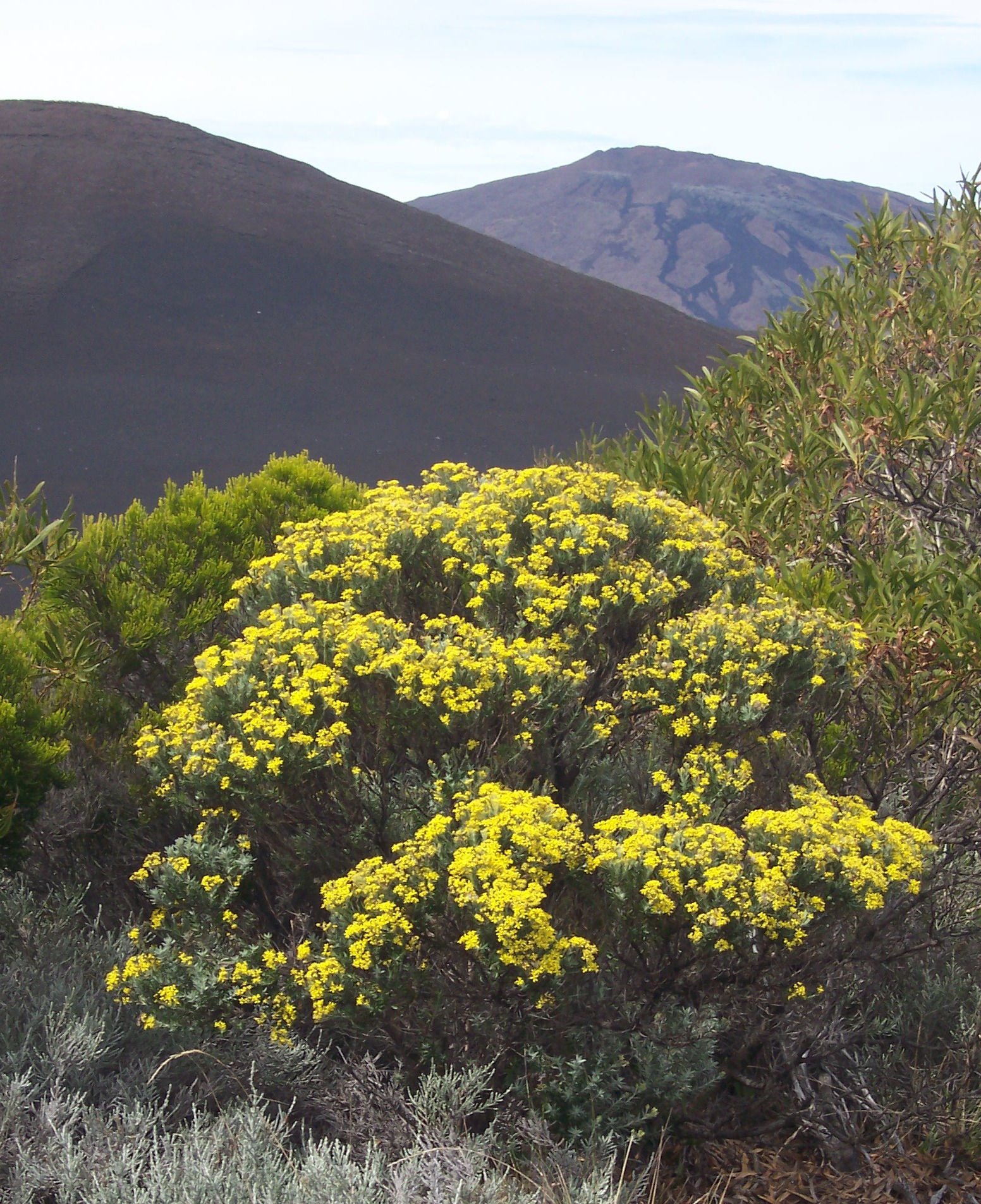 Hubertia tomentosa fr: Ambaville blanc Photo : B.navez - 15 APR 2006 - Réunion island